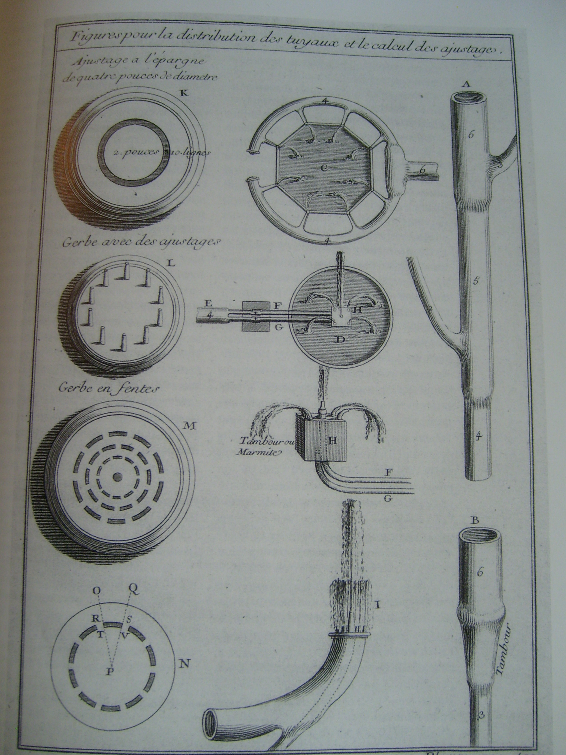 Illustration of fountain nozzles used to create different designs of water, from The Theory and Practice of Gardening, by Dezallier d'Argenville (1709)